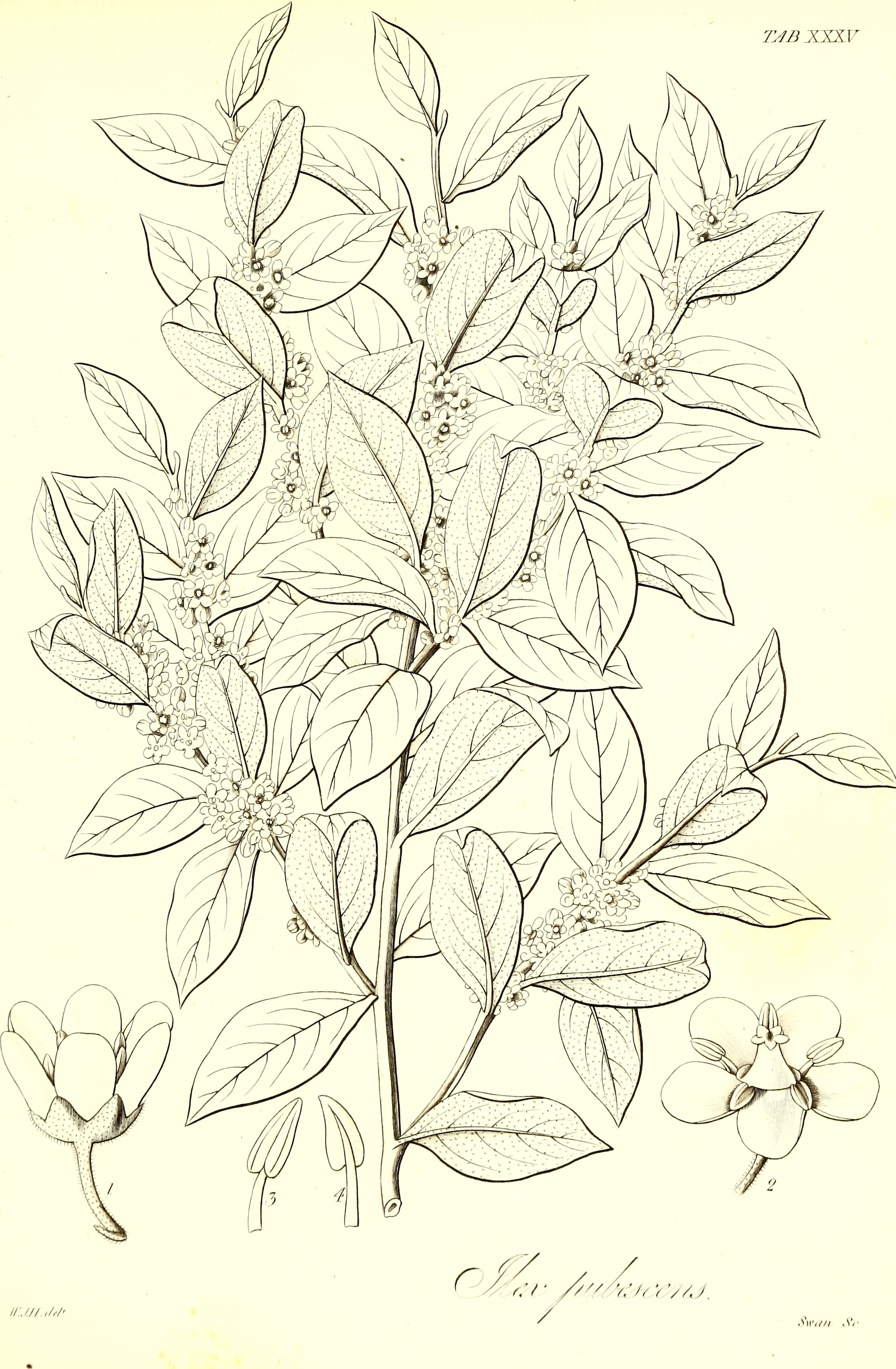 Title: The botany of Captain Beechey's voyage; comprising an acount of the plants collected by Messrs. Lay and Collie, and other officers of the expedition, during the voyage to the Pacific and Behring's Strait, performed in His Majesty's ship Blossom, under the command of Captain F. W. Beechey ... in the years 1825, 26, 27, and 28 Year: 1841 (1840s) Authors: Hooker, William Jackson, Sir, 1785-1865; Arnott, George Arnott Walker, 1799-1868, joint author; Beechey, Frederick William, 1796-1856 Subjects: Blossom (Ship); Botany; Botany; Botany Publisher: London, H. G. Bohn Text Appearing Before Image: ' Text Appearing After Image: '